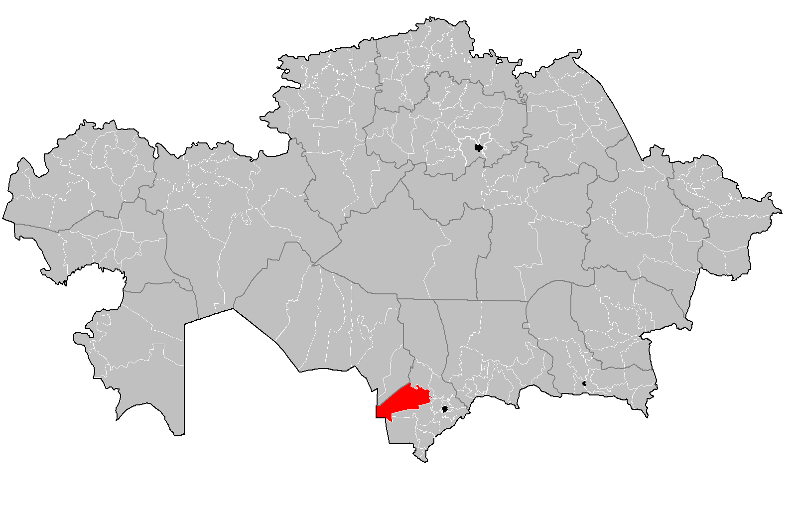 Map of the rayons of Kazakhstan. Created by Rarelibra 16:49, 3 August 2007 (UTC) for public domain use, using MapInfo Professional v8.5 and various mapping resources.